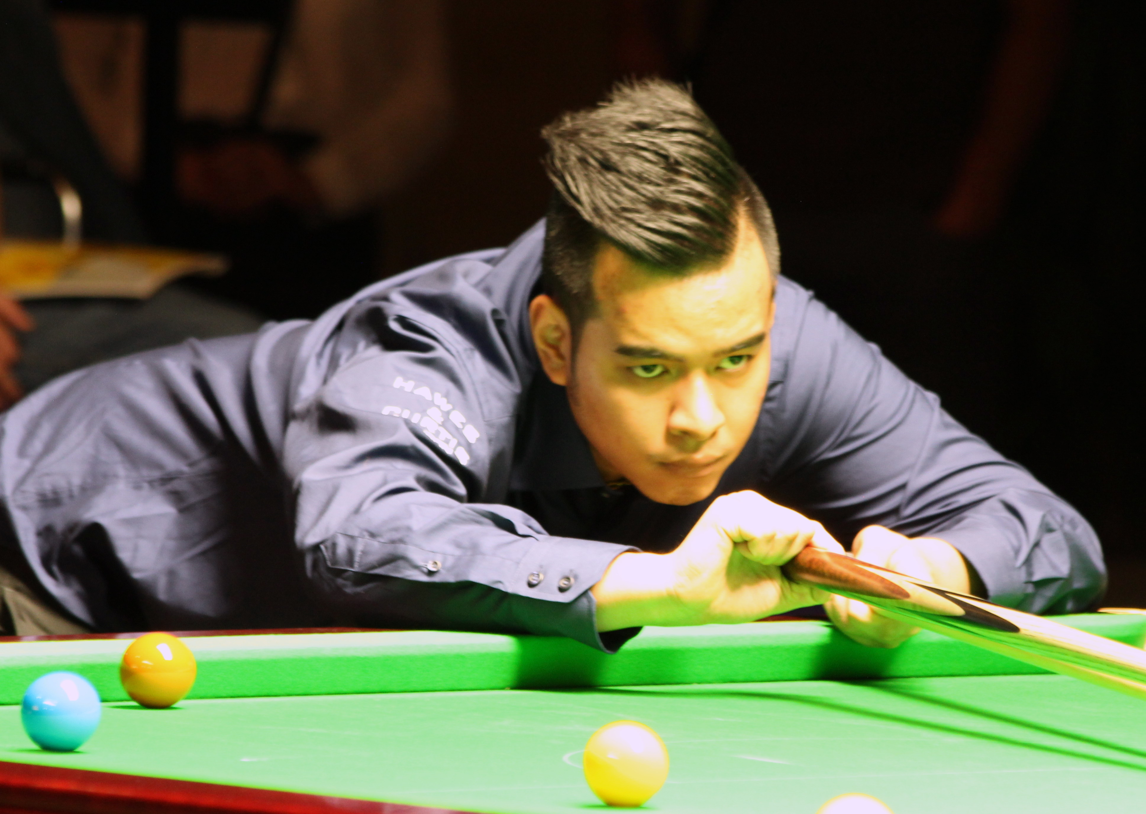 Noppon Saengkham beim Paul Hunter Classic 2015